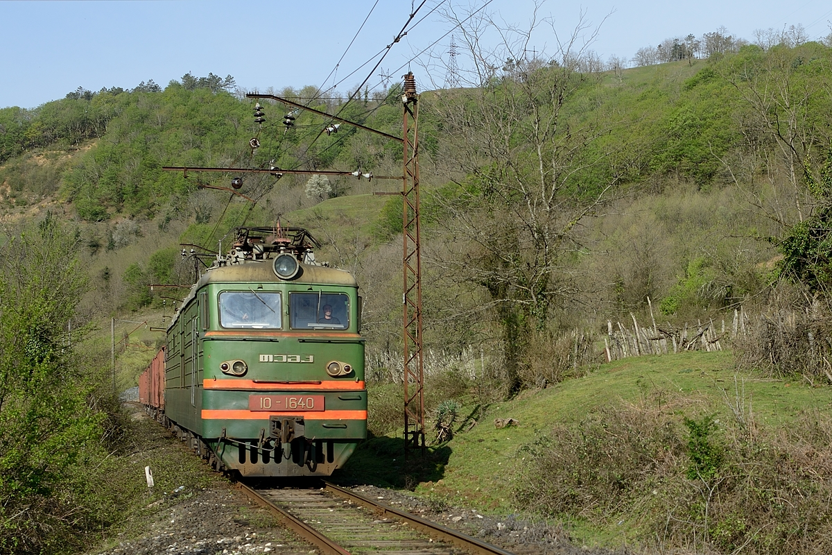 ВЛ10 (VL10) 1640 in Orpiri